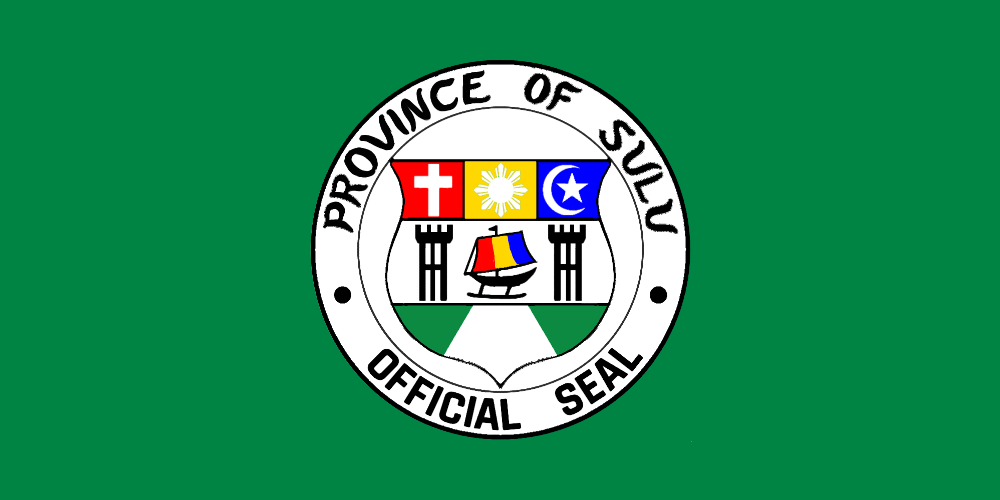 Provincial flag of Sulu